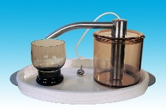 Used to make oxygen cocktails.